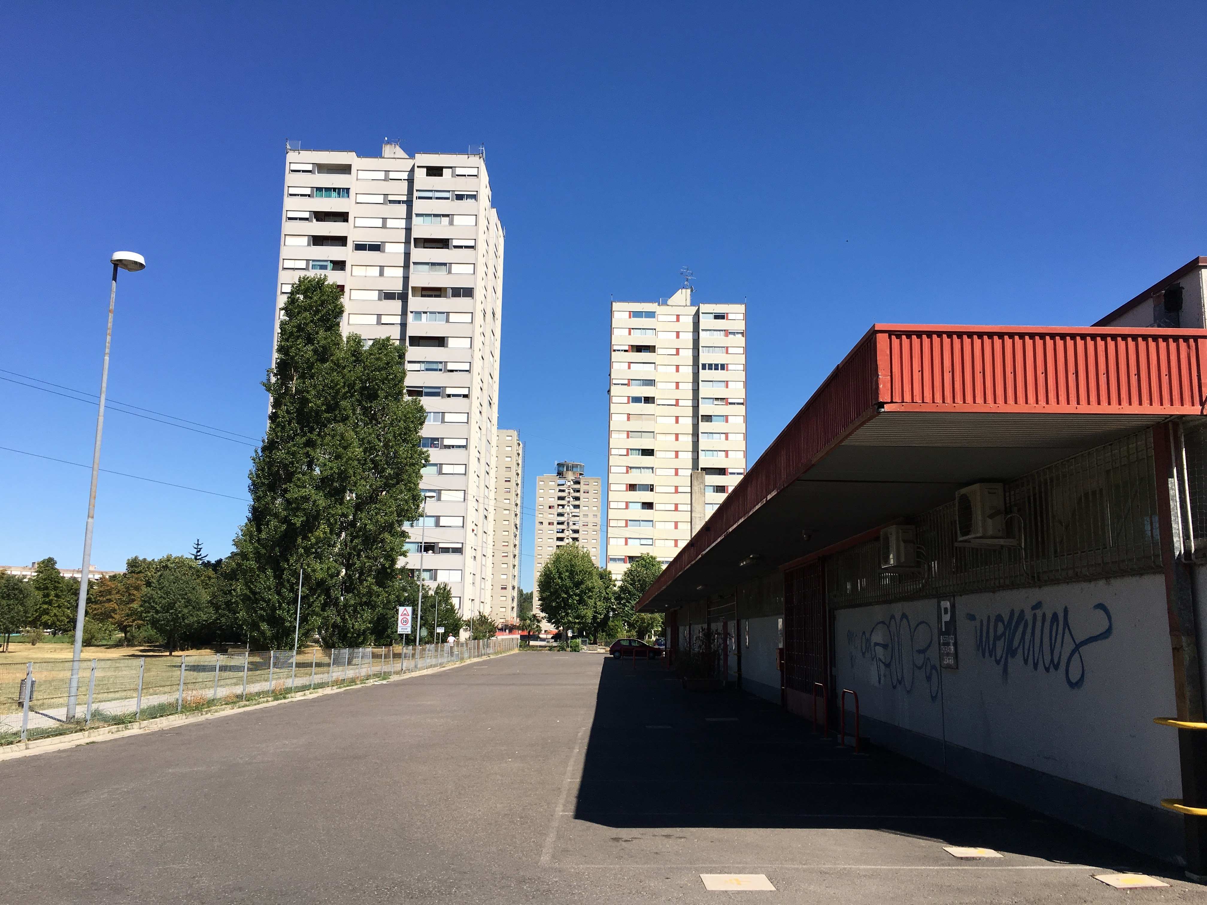 spazi commerciali pilastro, bologna